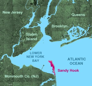 Sandy Hook © 2004 Matthew Trump